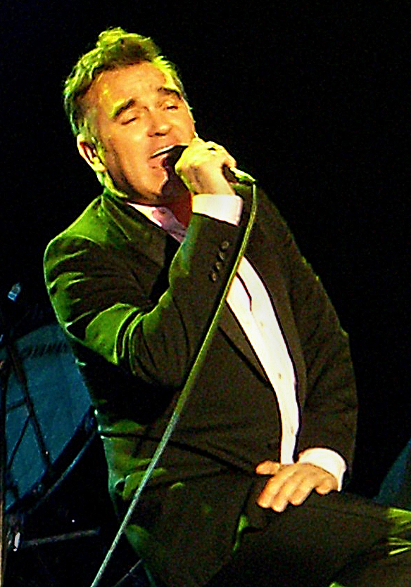 Morrissey appears at SXSW in Austin, Texas, USA on March 16, 2006. (Photoshop revisions to the file by user:SteveHopson on April 14, 2007. Changes include: cropping, color and contrast correction, and burning image.)